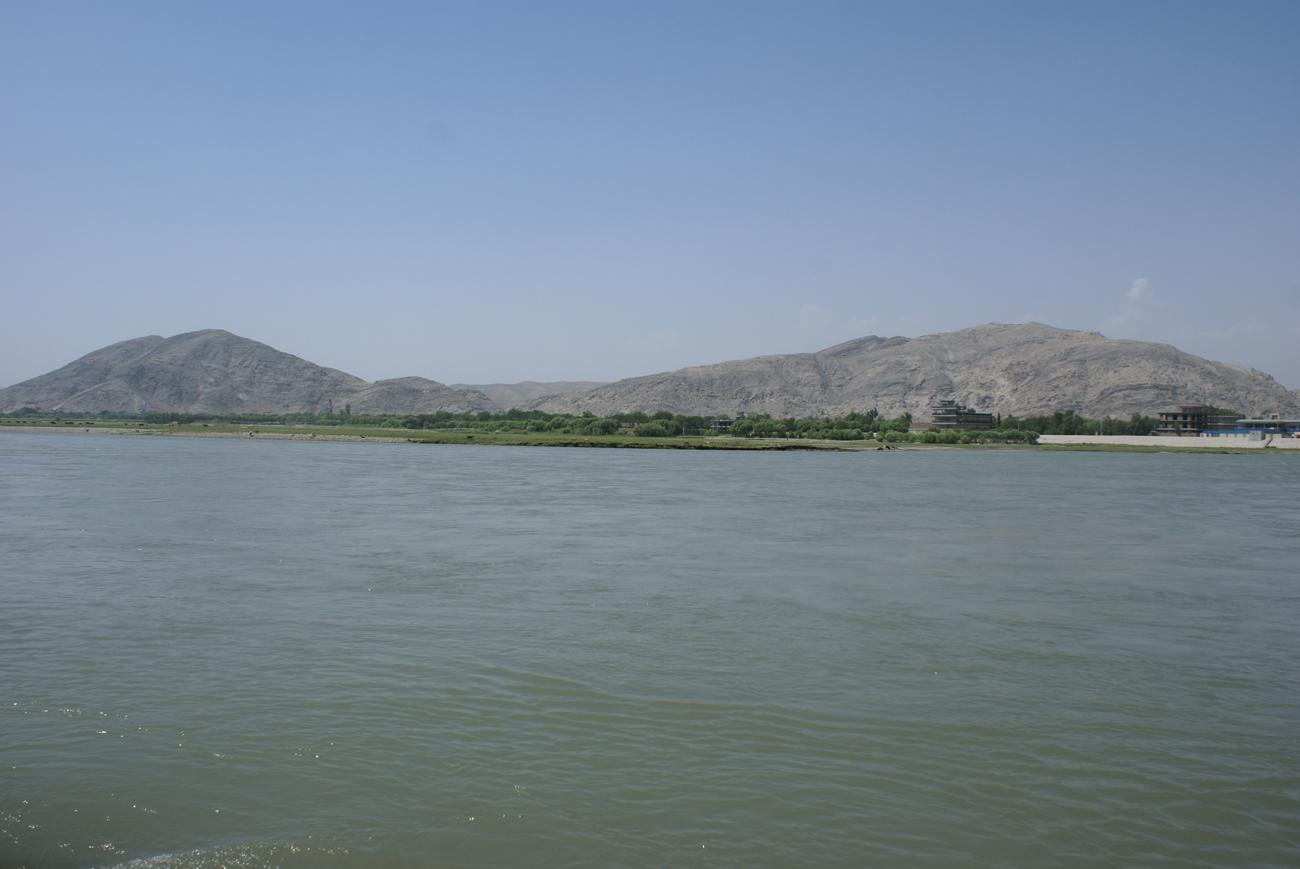 Kabul River in Behsood Bridge Area, Jalalabad - 30th July, 2009. By Qudratullah Khan پښتو: د کابل سيند د بهسودو پله په سيمه کې. په ۳۰ د جولای، ۲۰۰۹ کال. قدرت الله